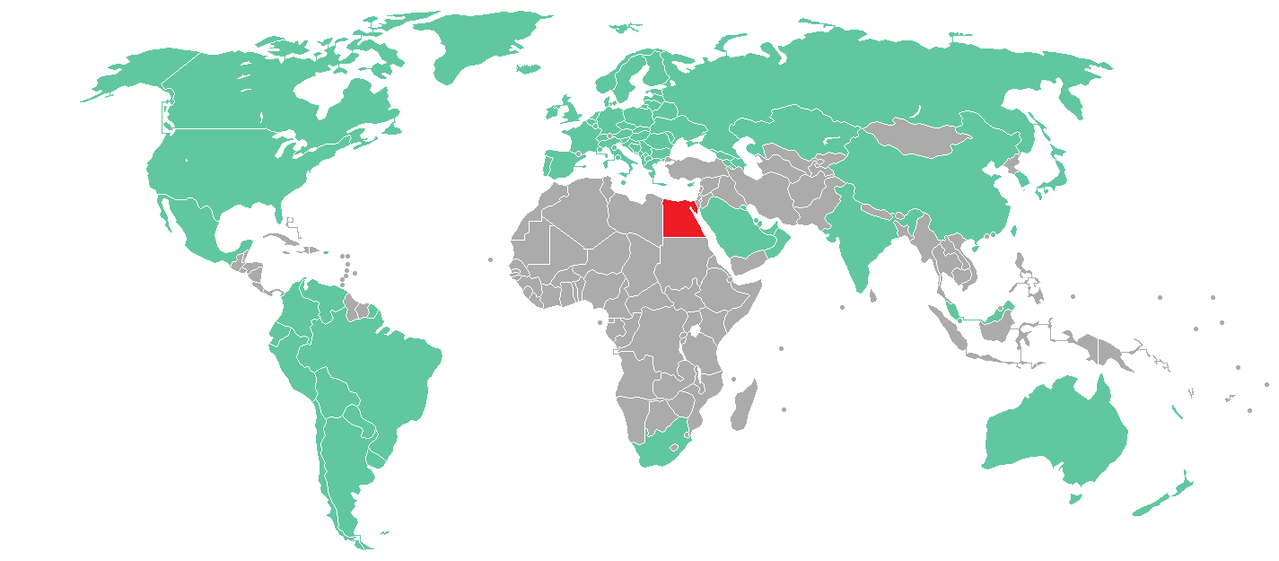 Egypt electronic visa eligibility Egypt eVisa eligible